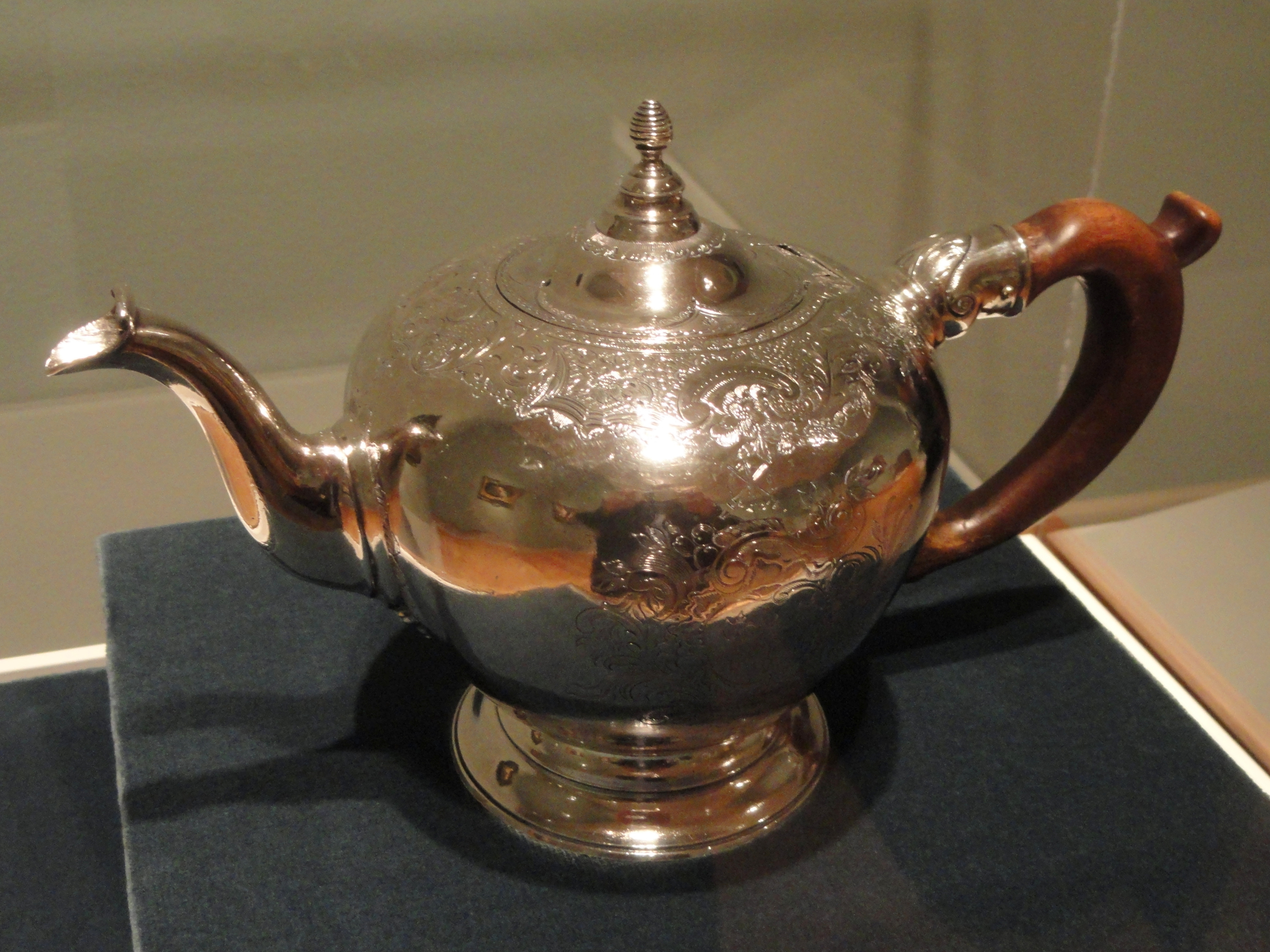 Exhibit in the Cleveland Museum of Art, Cleveland, Ohio, USA. This artwork is old enough so that it is in the public domain.